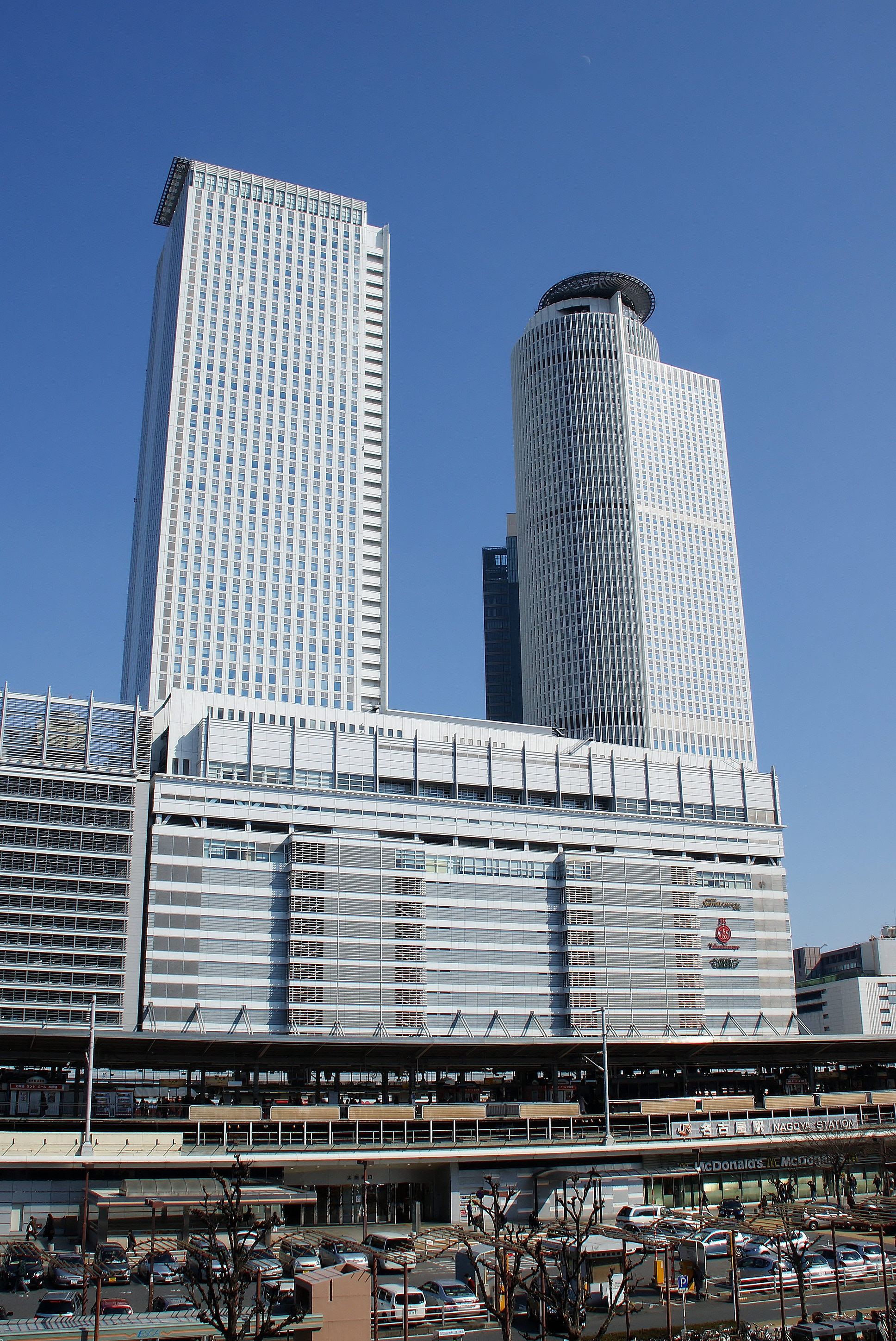 JR Central Towers.(Nakamura Ward, Nagoya City, Aichi Prefecture, Japan)